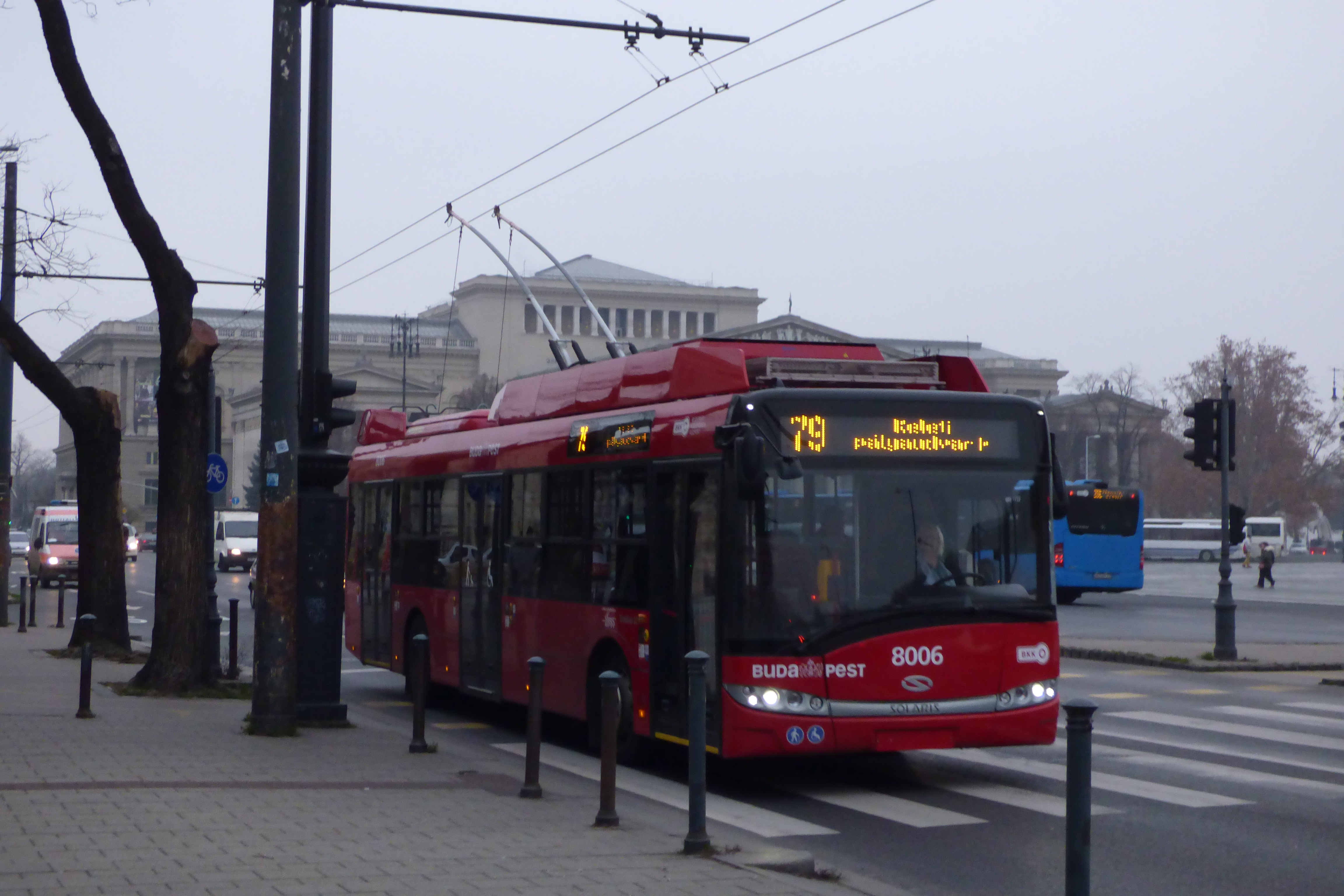 Škoda-Solaris Trollino 12 (cn. 8006), trolleybus no. 79, Budapest, Heroes' Square